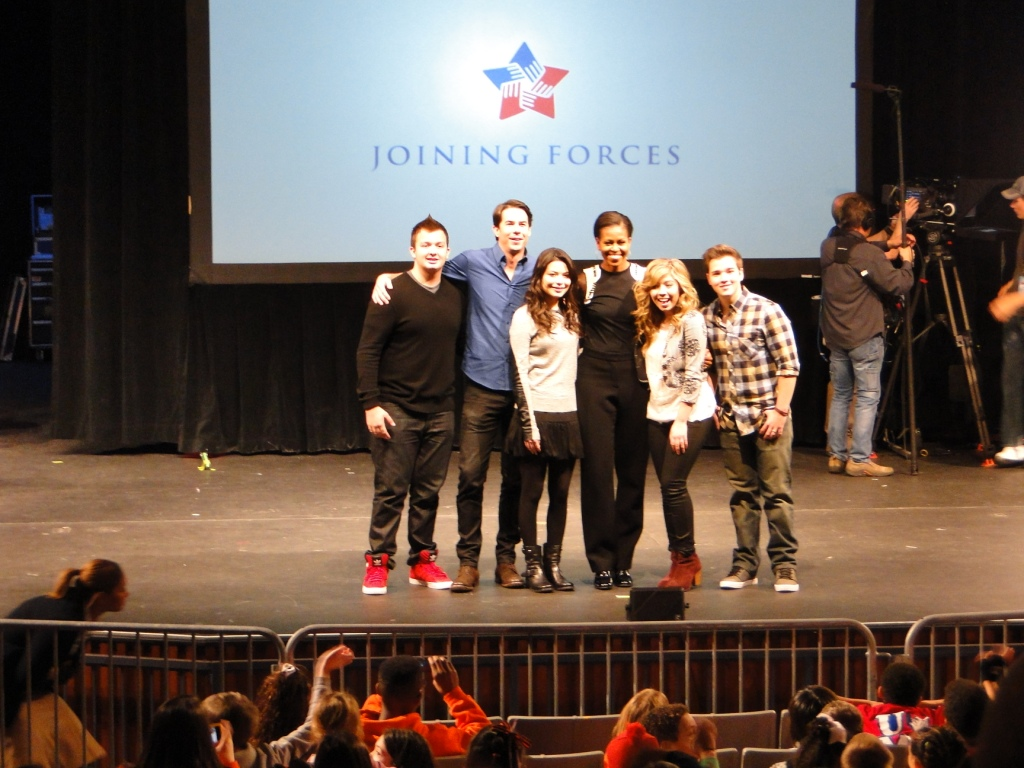 First Lady Michelle Obama stands with the cast of Nickelodeon’s “iCarly” at Hayfield Secondary School in Alexandria, Va., during a Jan. 13, 2012, event